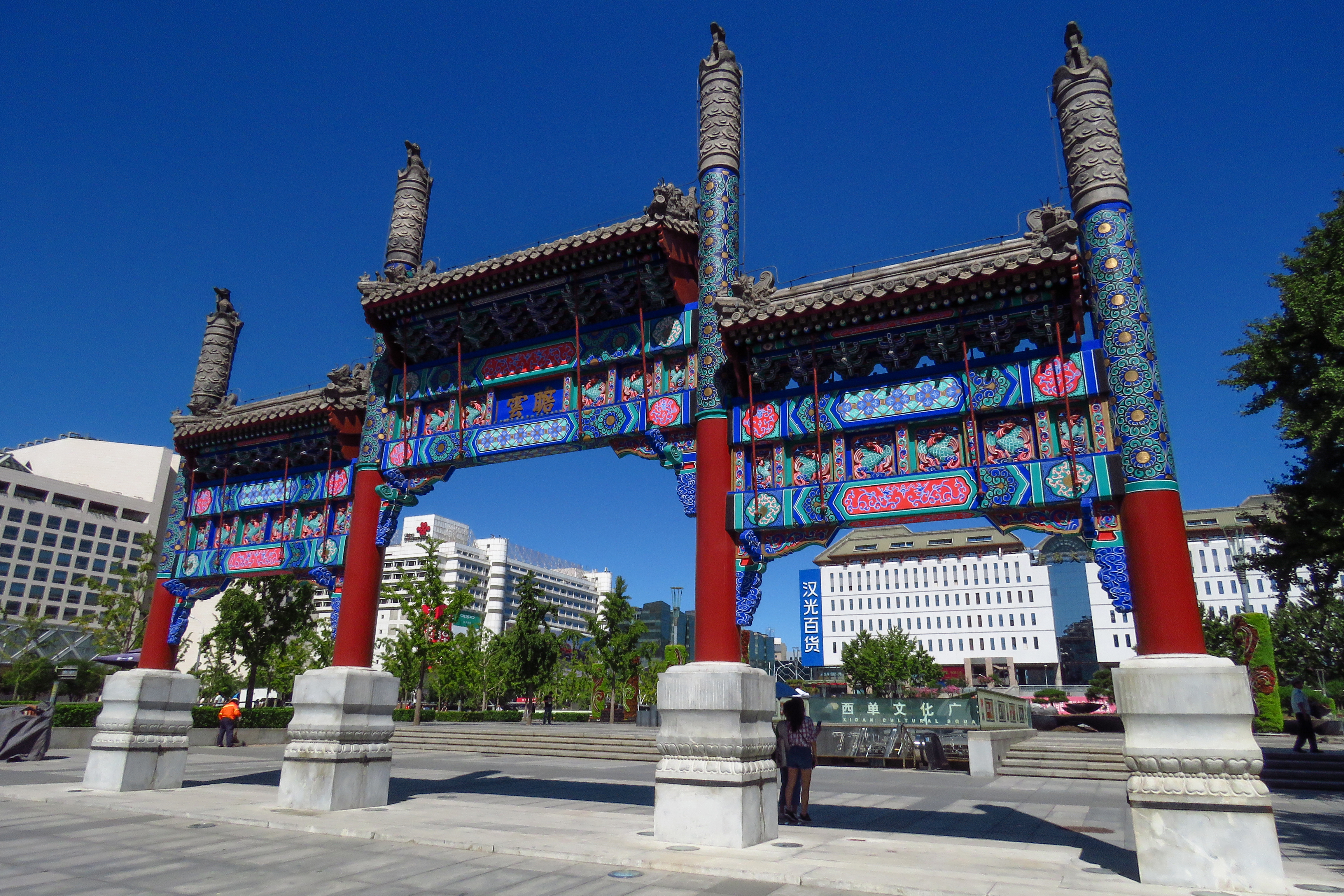 This one was actually built in 2008.